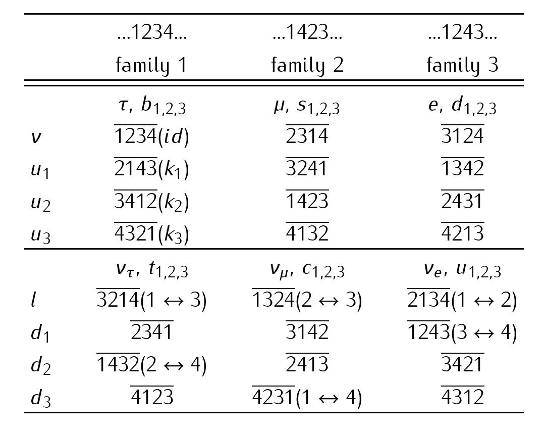 table of tetron model